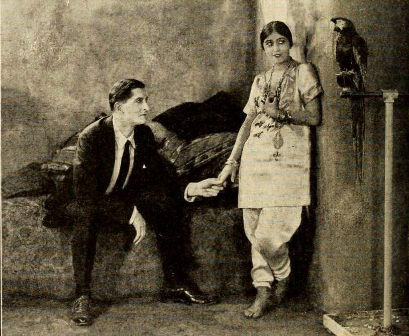 Still from the American silent film Without Benefit of Clergy (1921) with Thomas Holding and Virginia Brown Faire, on page 92 of the August 1921 Photoplay.